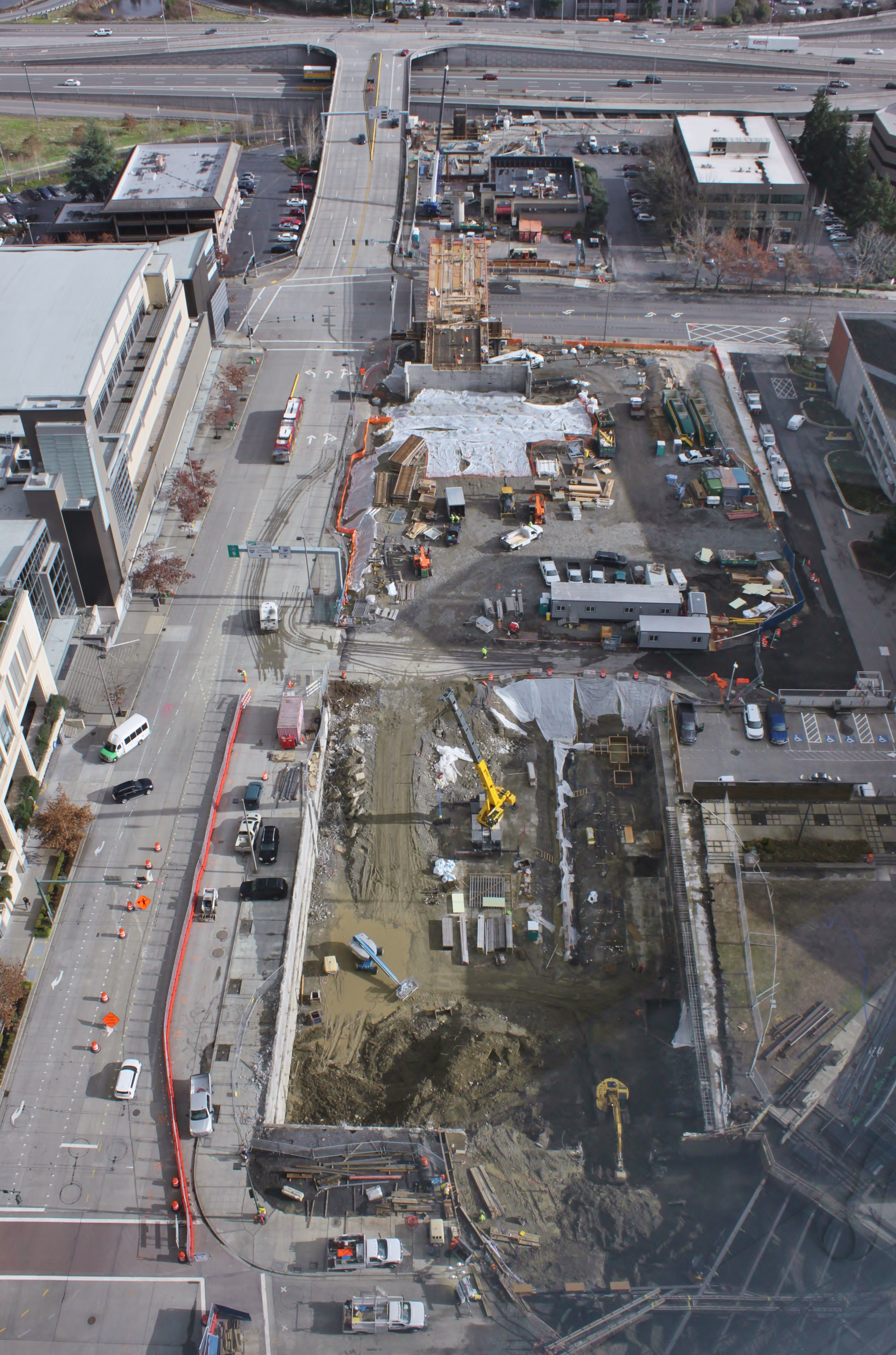 An elevated view of light rail construction at the future Bellevue Downtown station, looking east from City Center East, a high-rise office building in Downtown Bellevue.